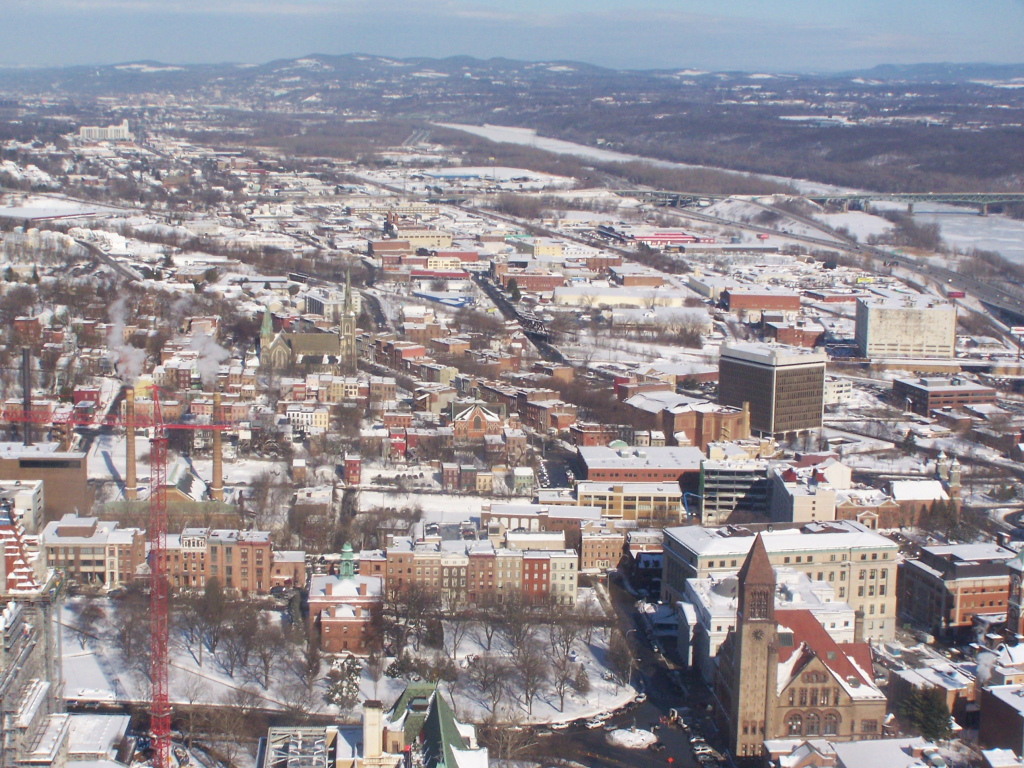 Downtown, Sheridan Hollow, and North Albany neighborhoods; as seen from 42nd story Observation Deck of the Corning Tower in Albany, New York, USA